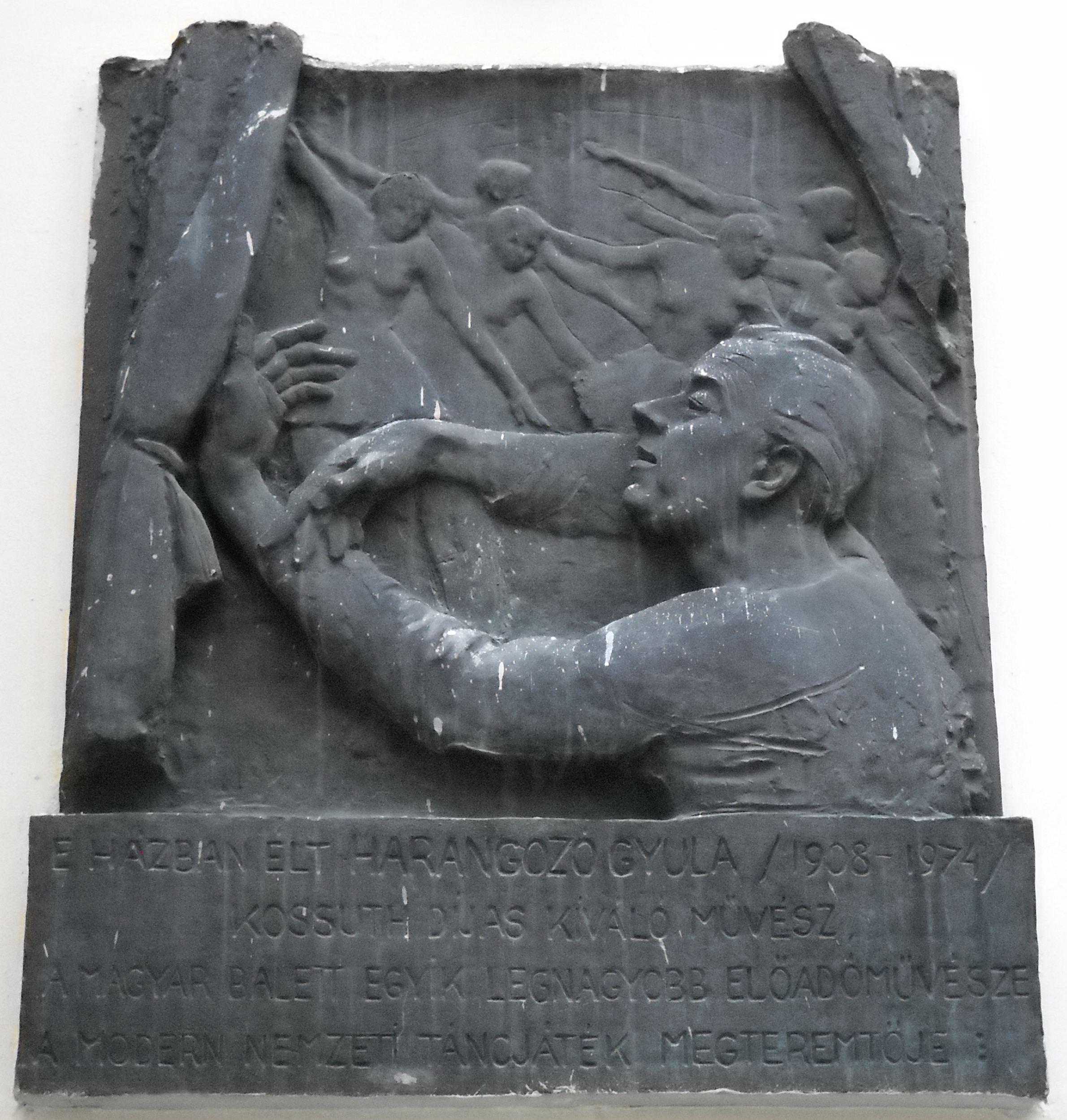 Gyula Harangozó (1908–1974) relief in Budapest District VI, Liszt Ferenc Square No 10